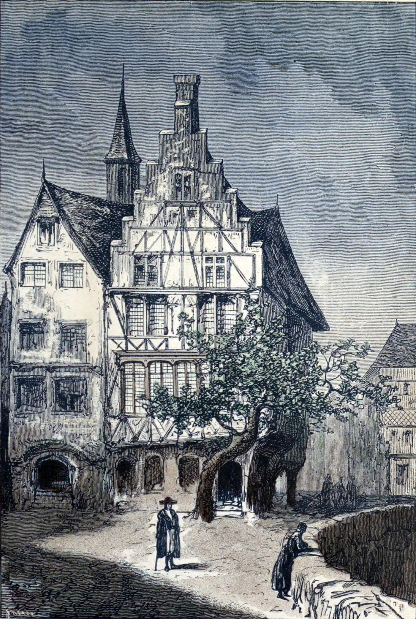 Illustration by Édouard Riou on page 19 of the book "Voyage au centre de la Terre" by Jules Verne